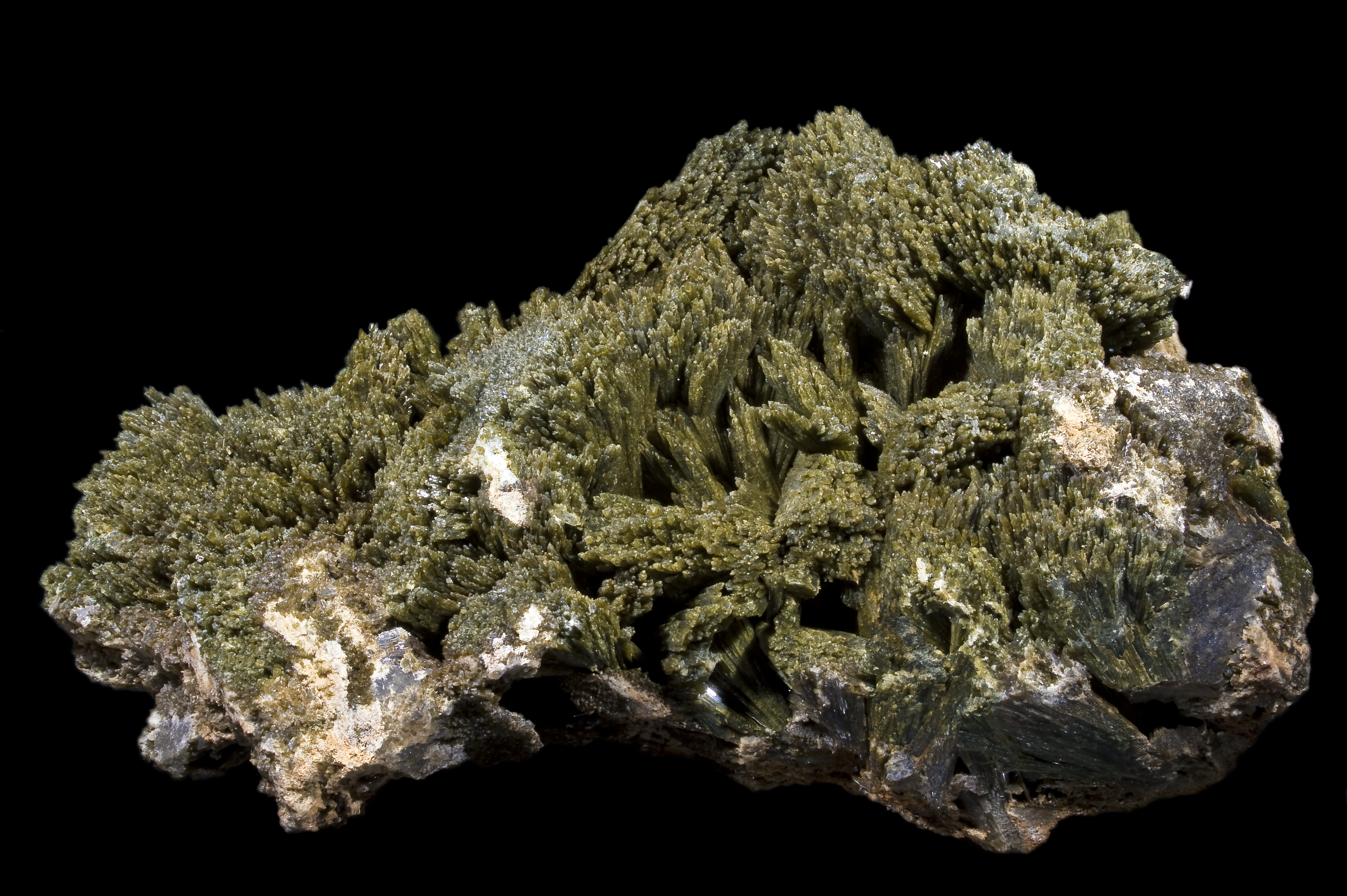 Epidote - Deposit topotype - Piece of the early nineteenth century - Le Cornillon, Bourg d'Oisans, Isère, Rhône-Alpes, France (33x18cm)